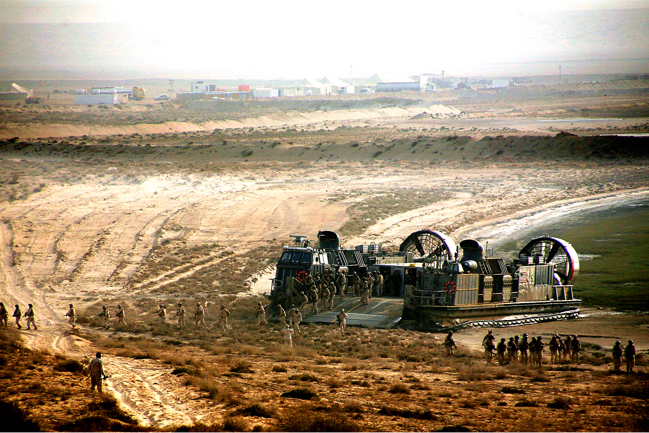 Middle Eastern military forces disembark a U.S. Navy landing craft air cushioned during a live-fire rehearsal of the final exercise with the 26th Marine Expeditionary Unit during Red Reef 2008 in the Middle East, October 27th, 2008.